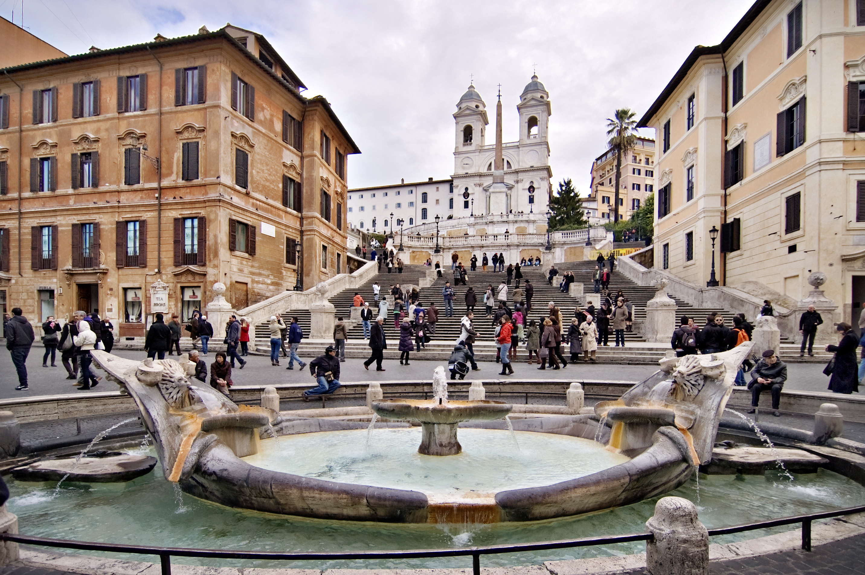 The Spanish Steps, Fontana della Barcaccia, and Piazza di Spagna, in Rome, Italy